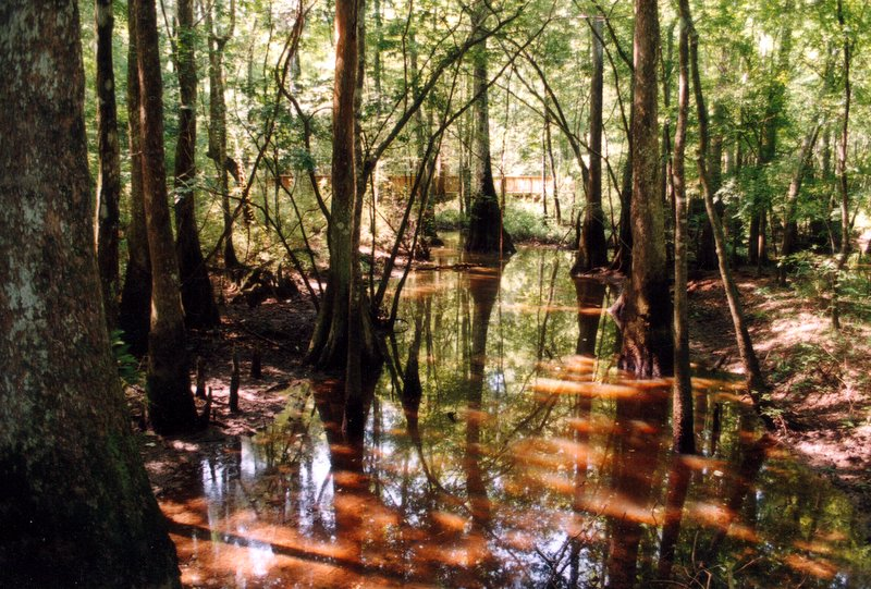 Walkway through swamp in Tickfaw State Park, Louisiana